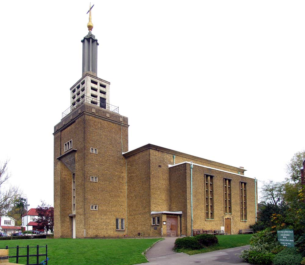 John Keble, Deans Lane, London HA8